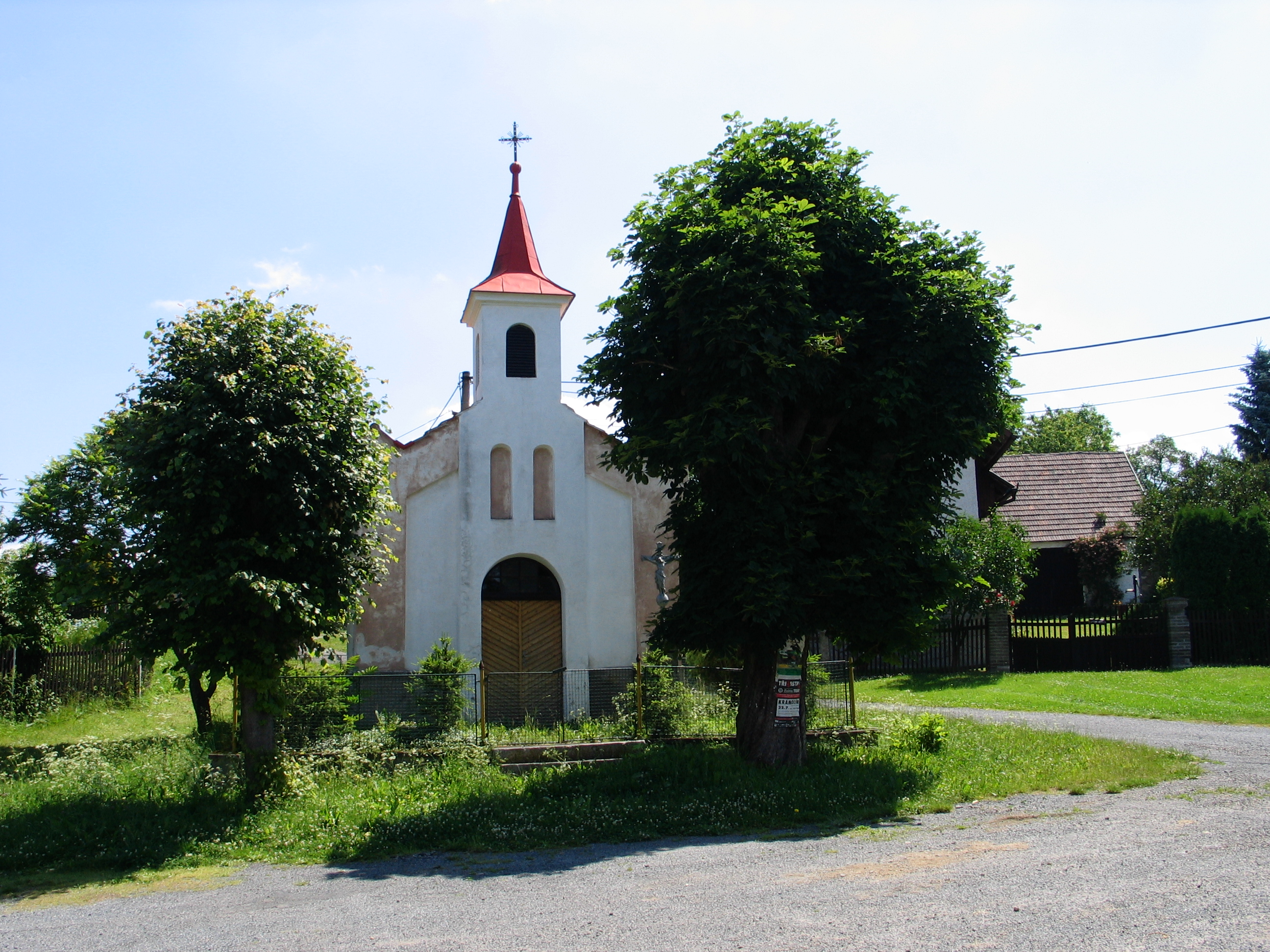 Životice - village in western Bohemia